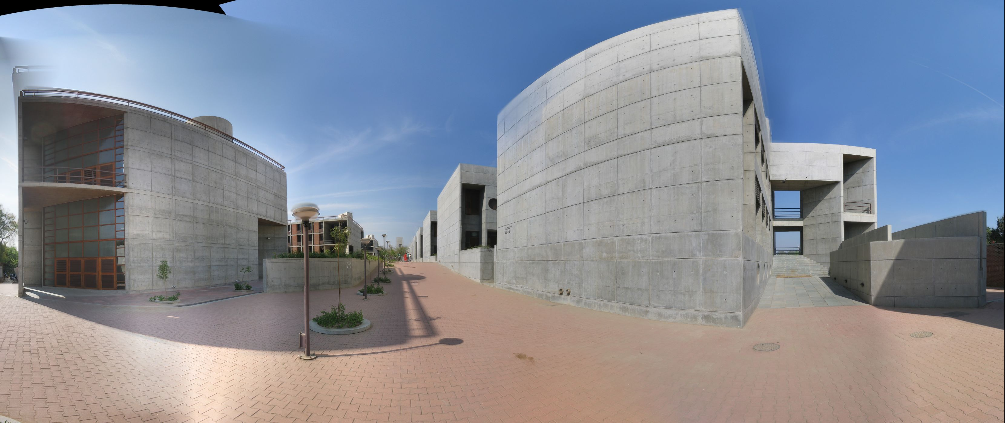 Panorama image of the main complex of Indian Institute of Ahmedabad (IIMA). In the picture is presented the New Campus area. On the opposite side, after the subway tunnel, is the old campus area, called Main Complex. Taken by Canon Powershot A80 using automatic picture balancing controls. Picture constructed by Autostich 2.185 from individual images. This panoramic image was created with Autostitch. Stitched images may differ from reality.